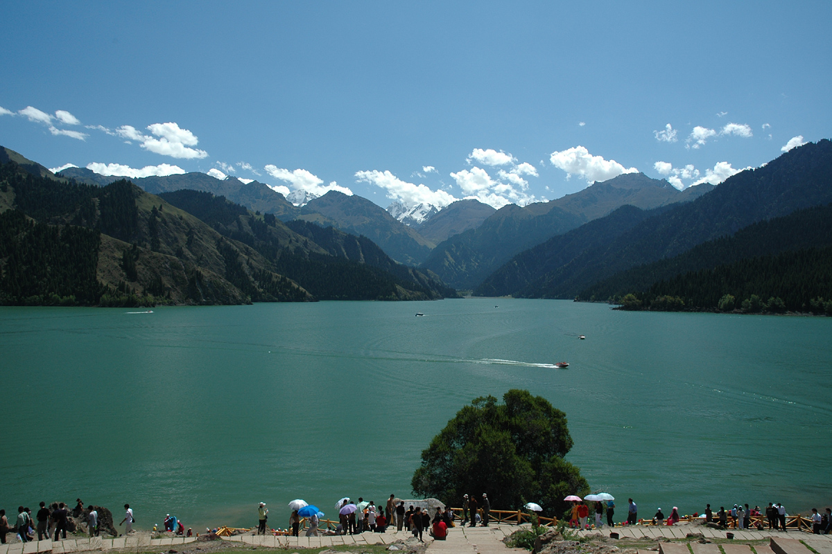 Heaven Lake of Tian Shan, Xinjiang, China. Taken by myself in Aug. 2005.